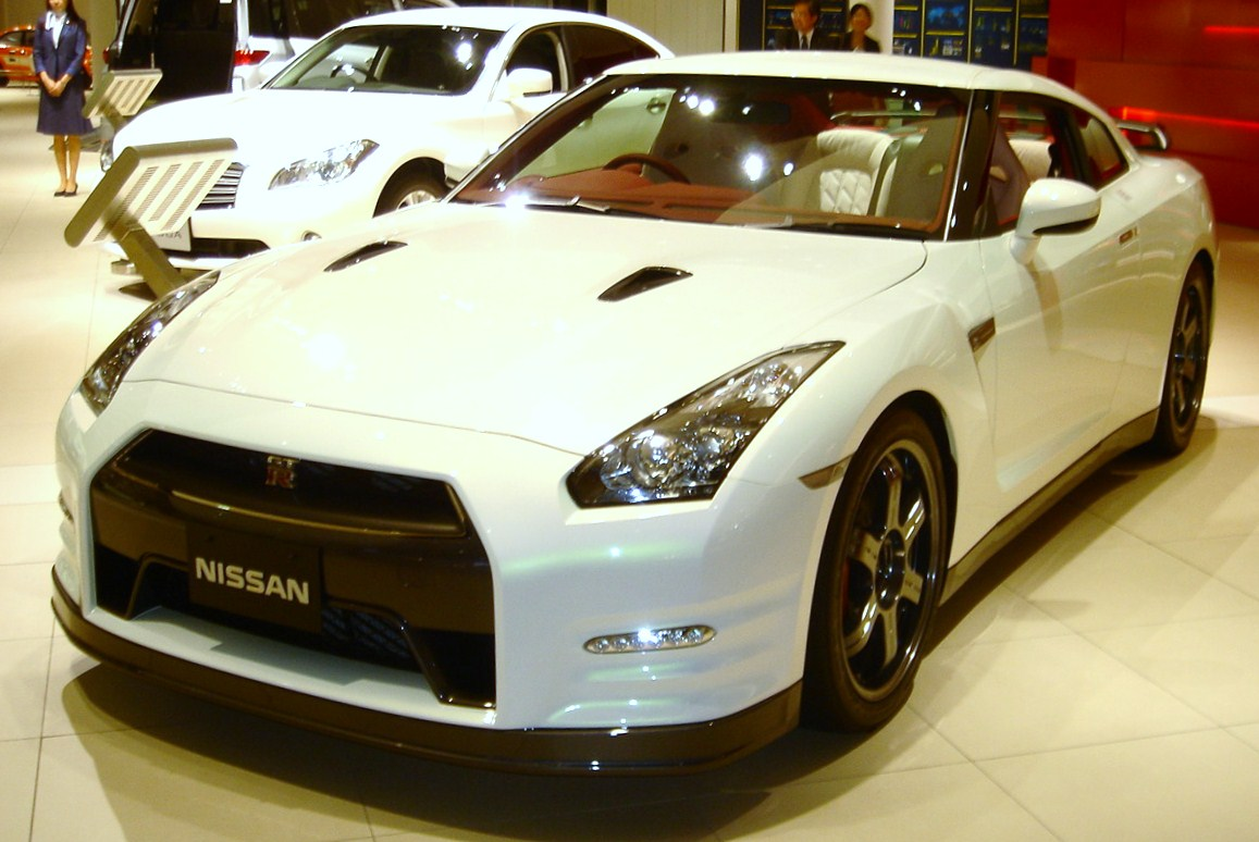 Nissan GT-R